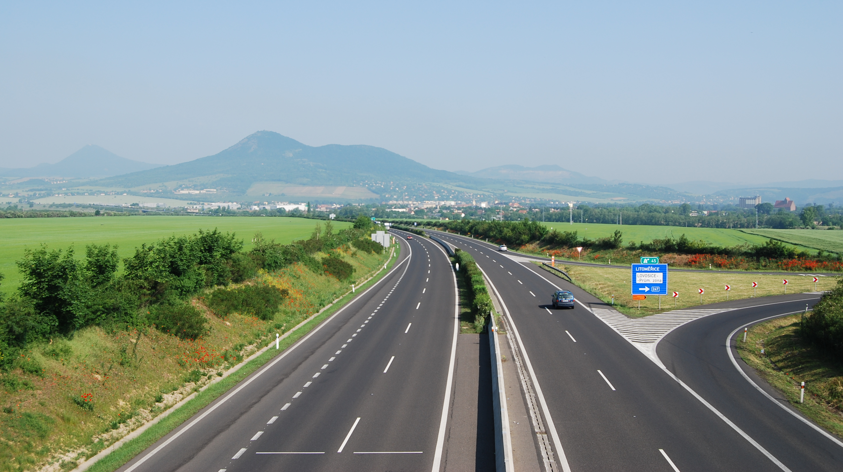 Highway D8 at km 45 near Lovosice. A view in NW direction, in the background the Lovoš with town of Lovosice on plain by its foot, in the far left the Milešovka.